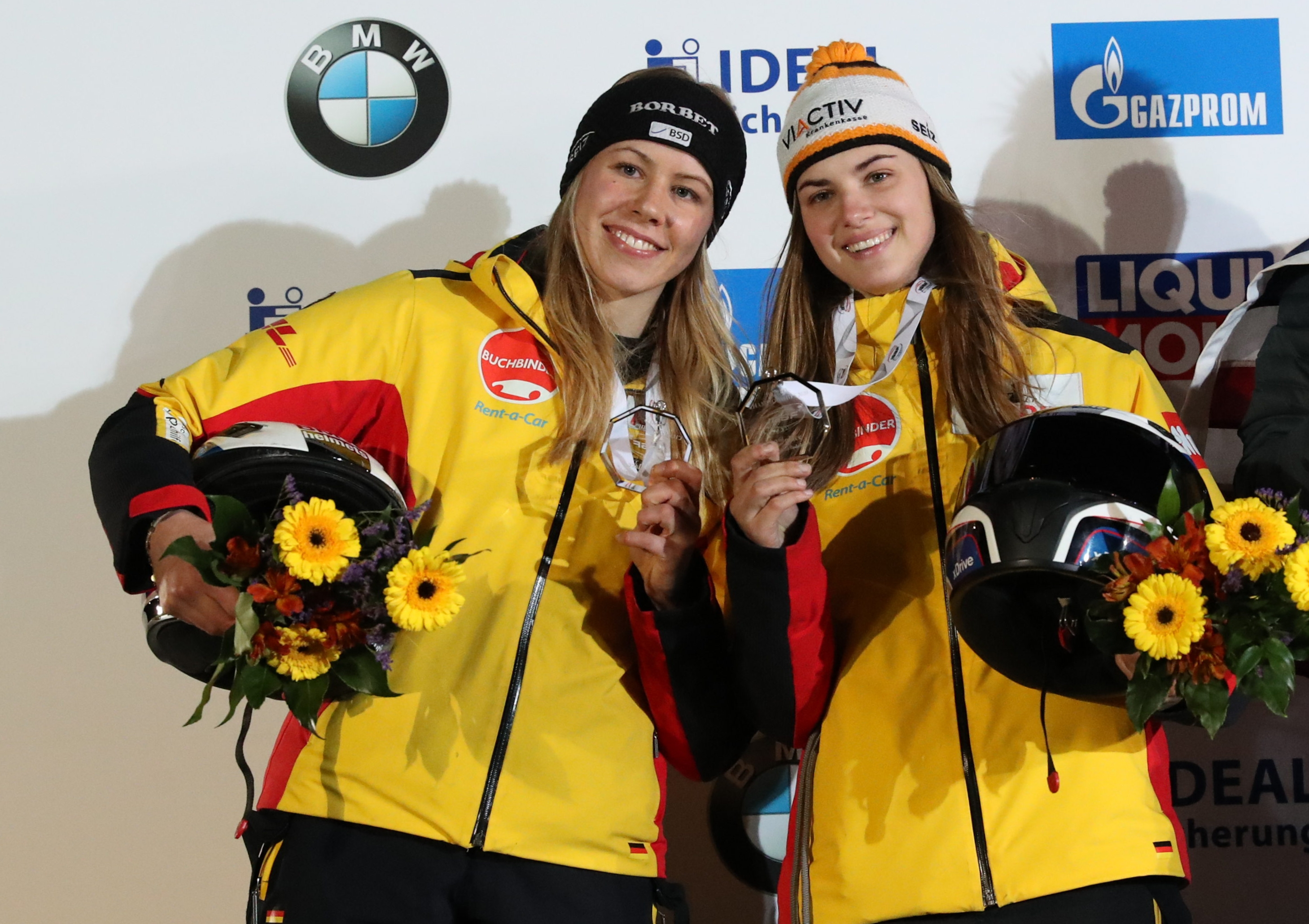 Medal Ceremony at the 2-woman bobsleigh at the Bobsleigh and Skeleton World Championships 2020 in Altenberg